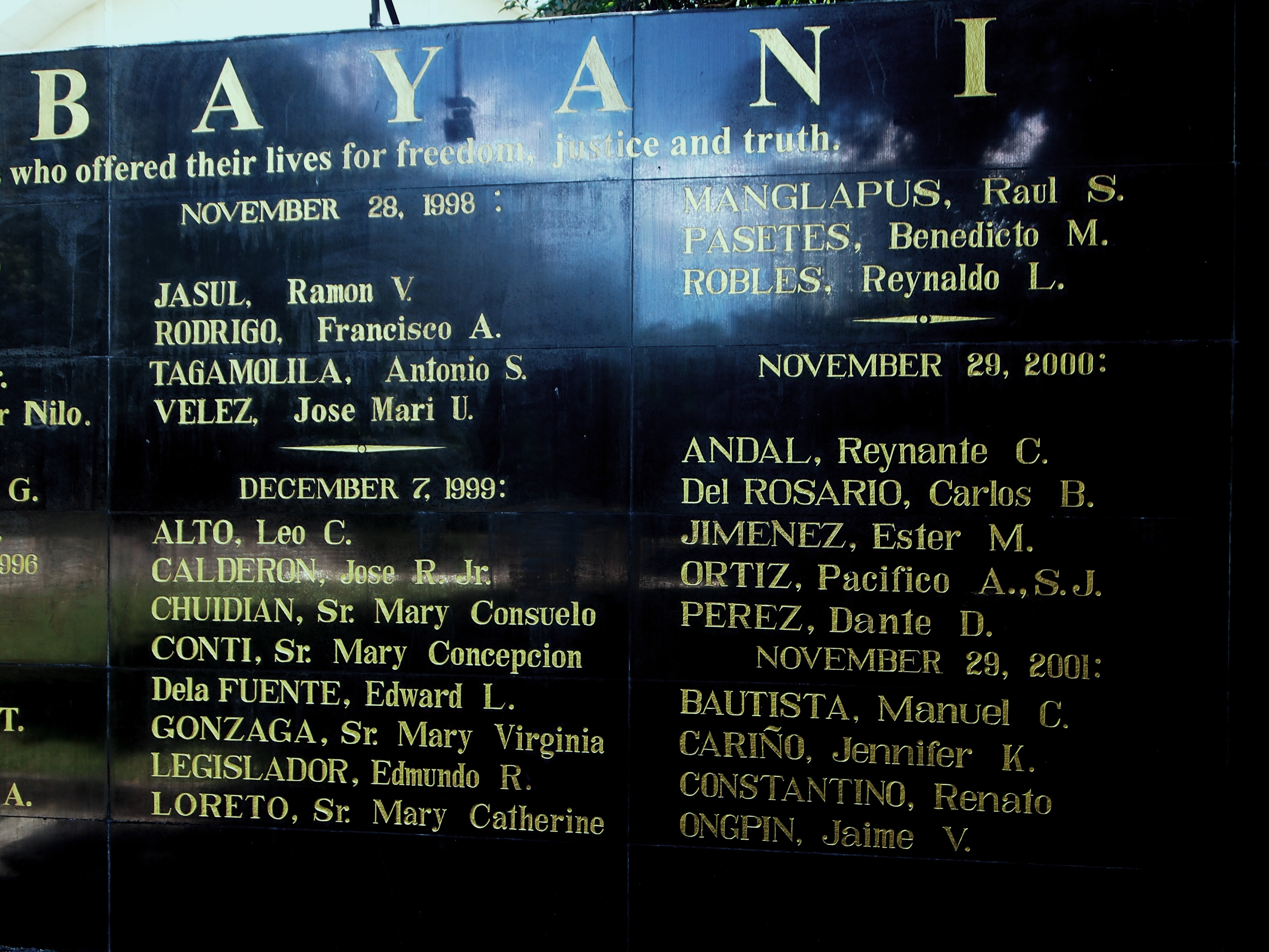 Detail of the Wall of Remembrance at the Bantayog ng mga Bayani, photographed at noon on 15 November 2018, showing names from the 1998 and 1999 batch of Bantayog honorees.